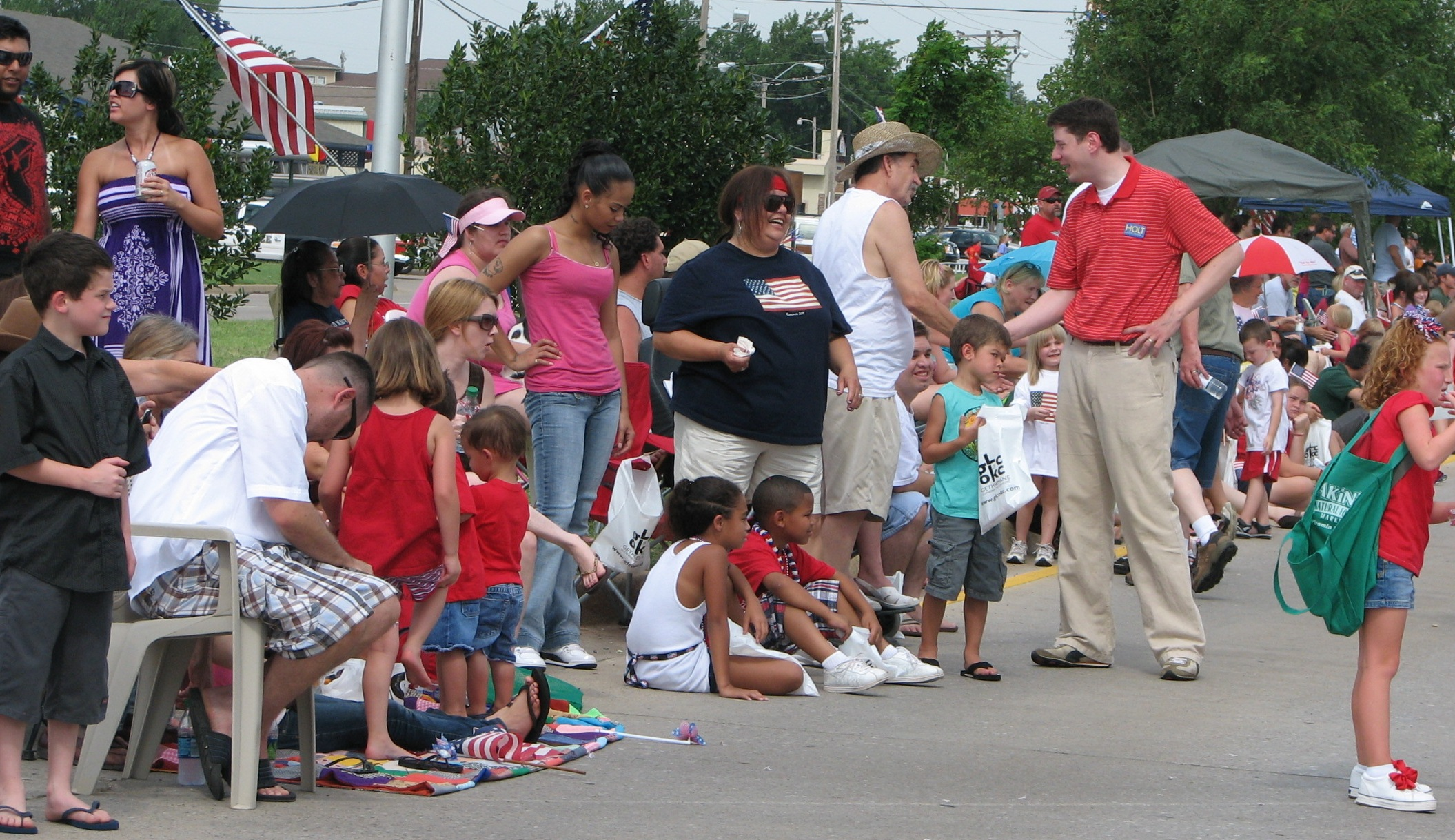 Oklahoma Senator David Holt shaking hands at the Bethany, OK Independence Day Parade on July 4, 2011.